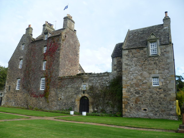 Earlshall Castle